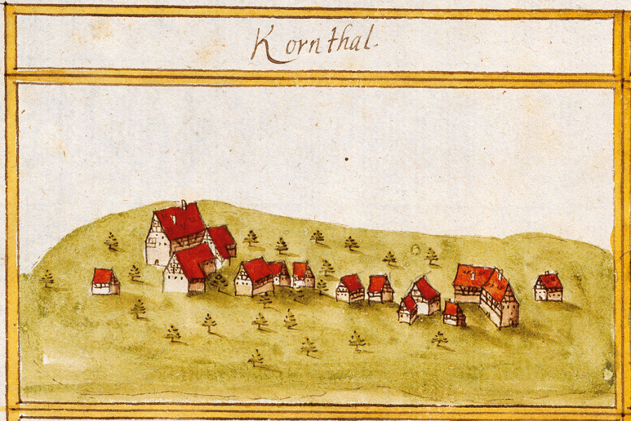 View of Korntal, Korntal-Münchingen, from the forest register books created by Andreas Kieser